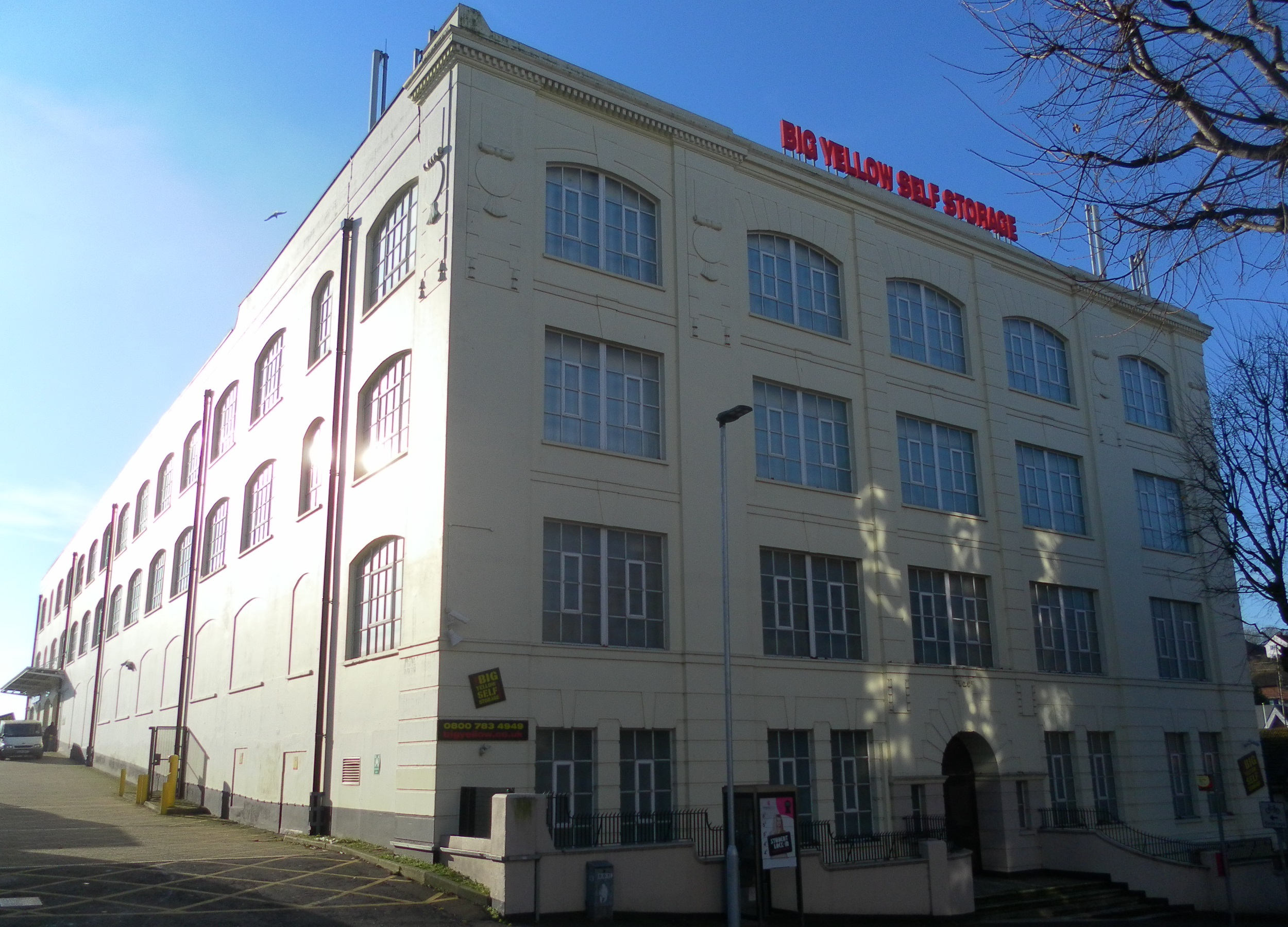 Big Yellow Self Storage (former Diamond Factory), Coombe Road, Brighton, City of Brighton and Hove, England. Built in 1918 as a diamond factory, then used as a false teeth factory until 1991.